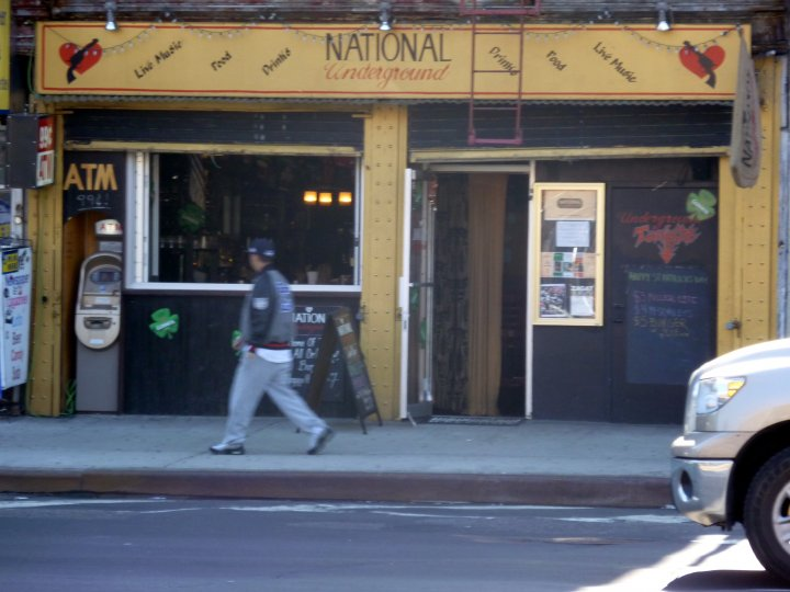 Photo of The National Underground exterior